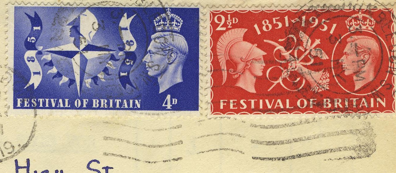 Used British postage stamps commemorating the Festival of Britain